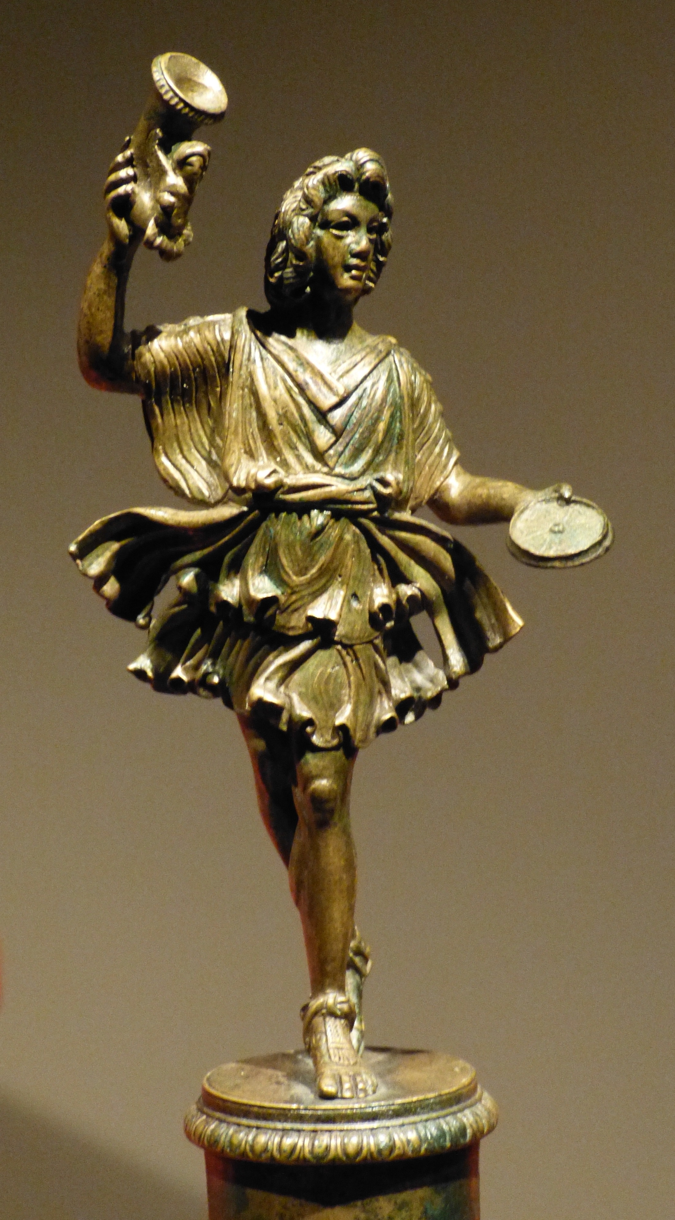 Straubing ( Lower Bavaria ). Gäubodenmuseum: Roman treasure of Straubing - Bronze statue ( 1st century AD ) of a dancing Lar, probably from Campania.